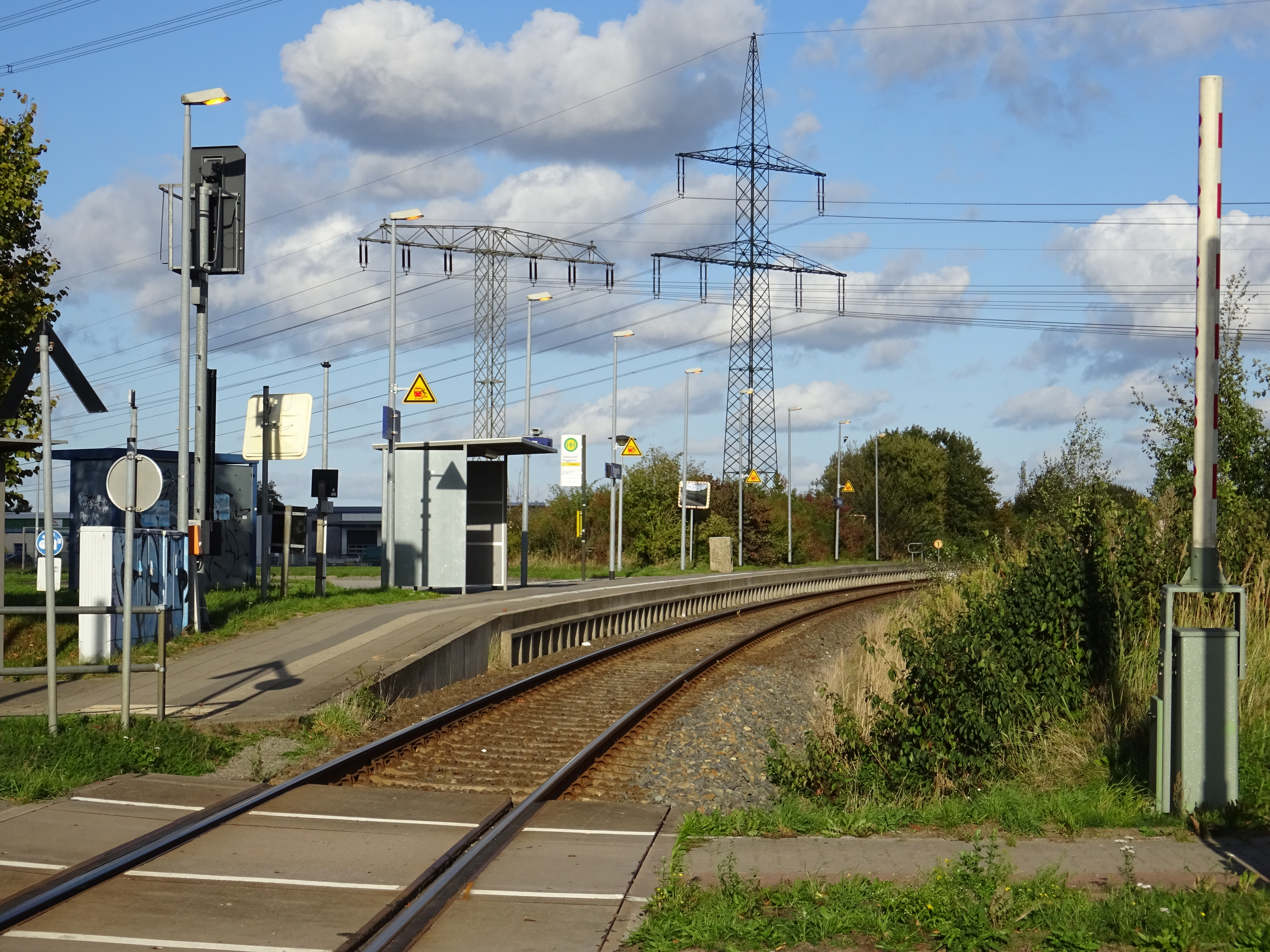 Roggentin railway station